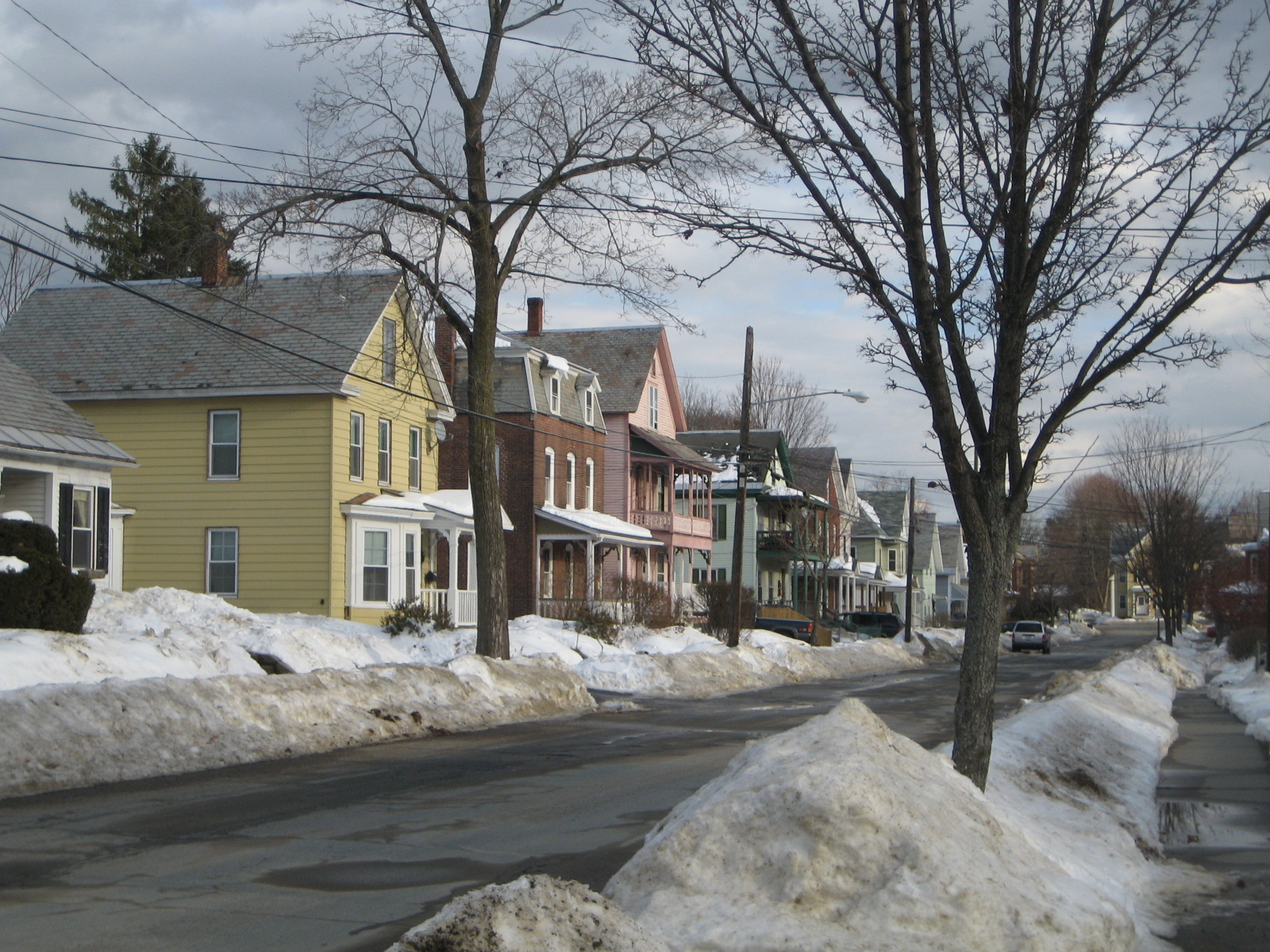 Streetside in Turners Falls